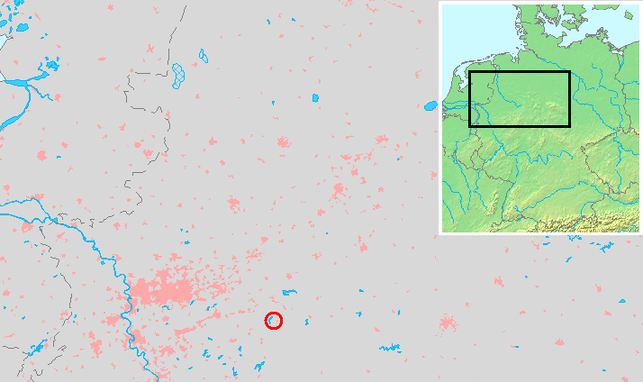 Locator maps of lakes in Germany : Location Sorpesee.PNG